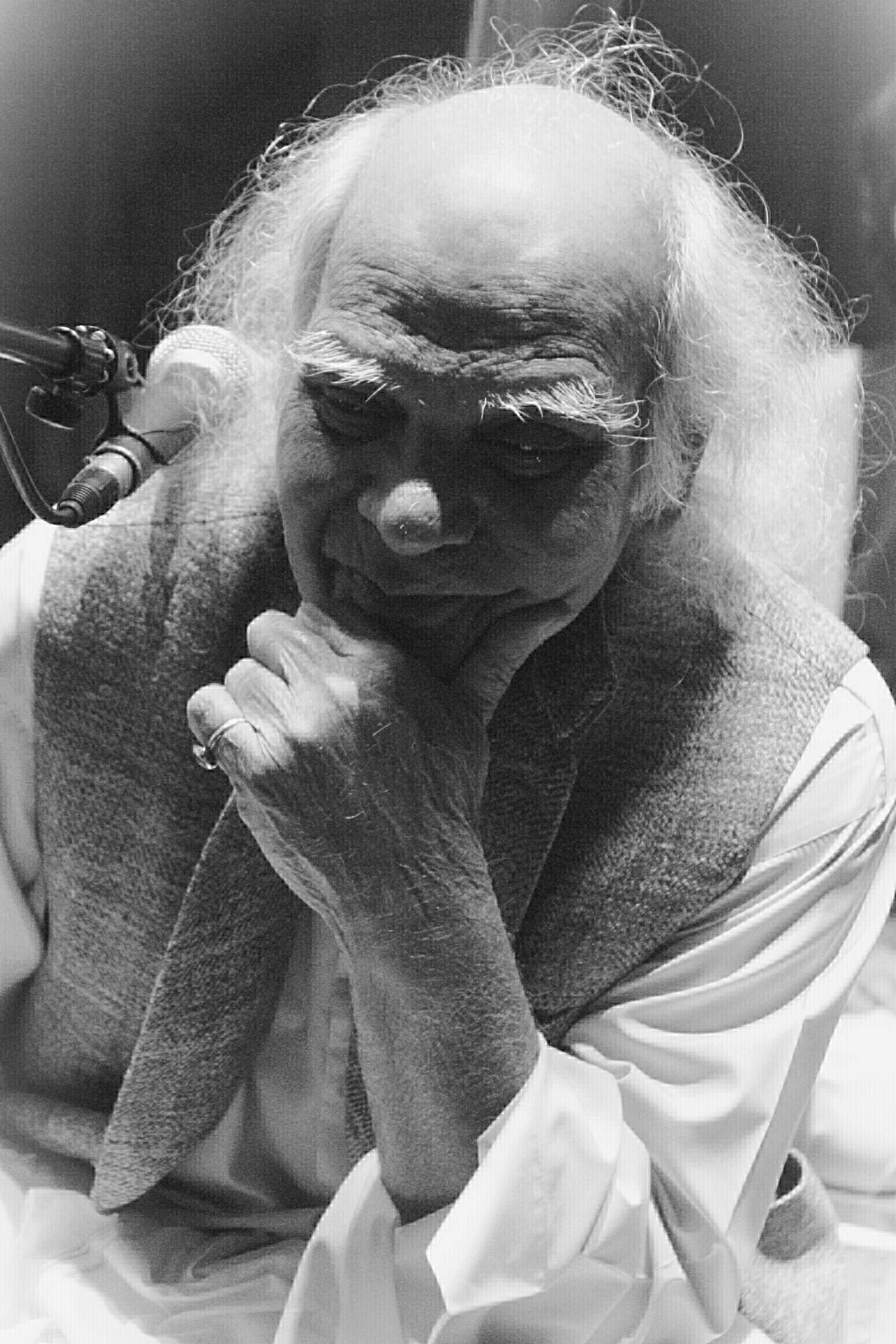 Ustad Hussain Sayeeduddin Dagar in Brussels, Belgium